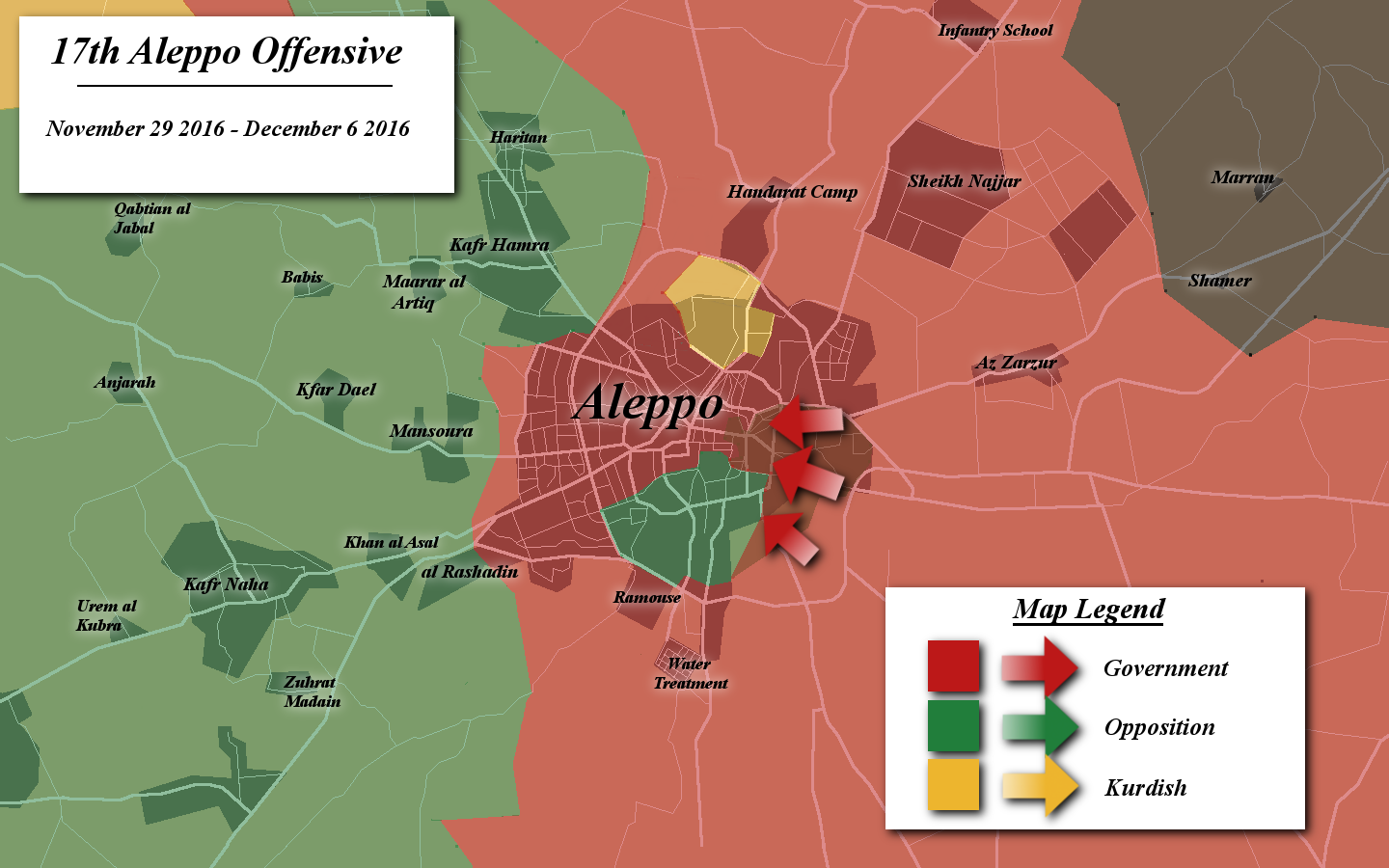 A simplified version of the second phase of the 17th Aleppo Offensive. Created in gimp 2.8. Influenced by many maps from creators: MrPenguin20, PetoLucem, Edmaps Syria, and so on.